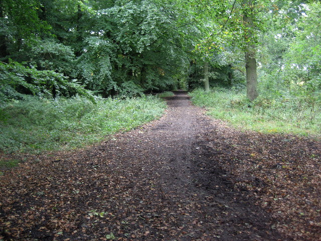 Pavis Wood The Ridgeway National Trail entering Pavis Wood, just by the border between Buckinghamshire and Hertfordshire.